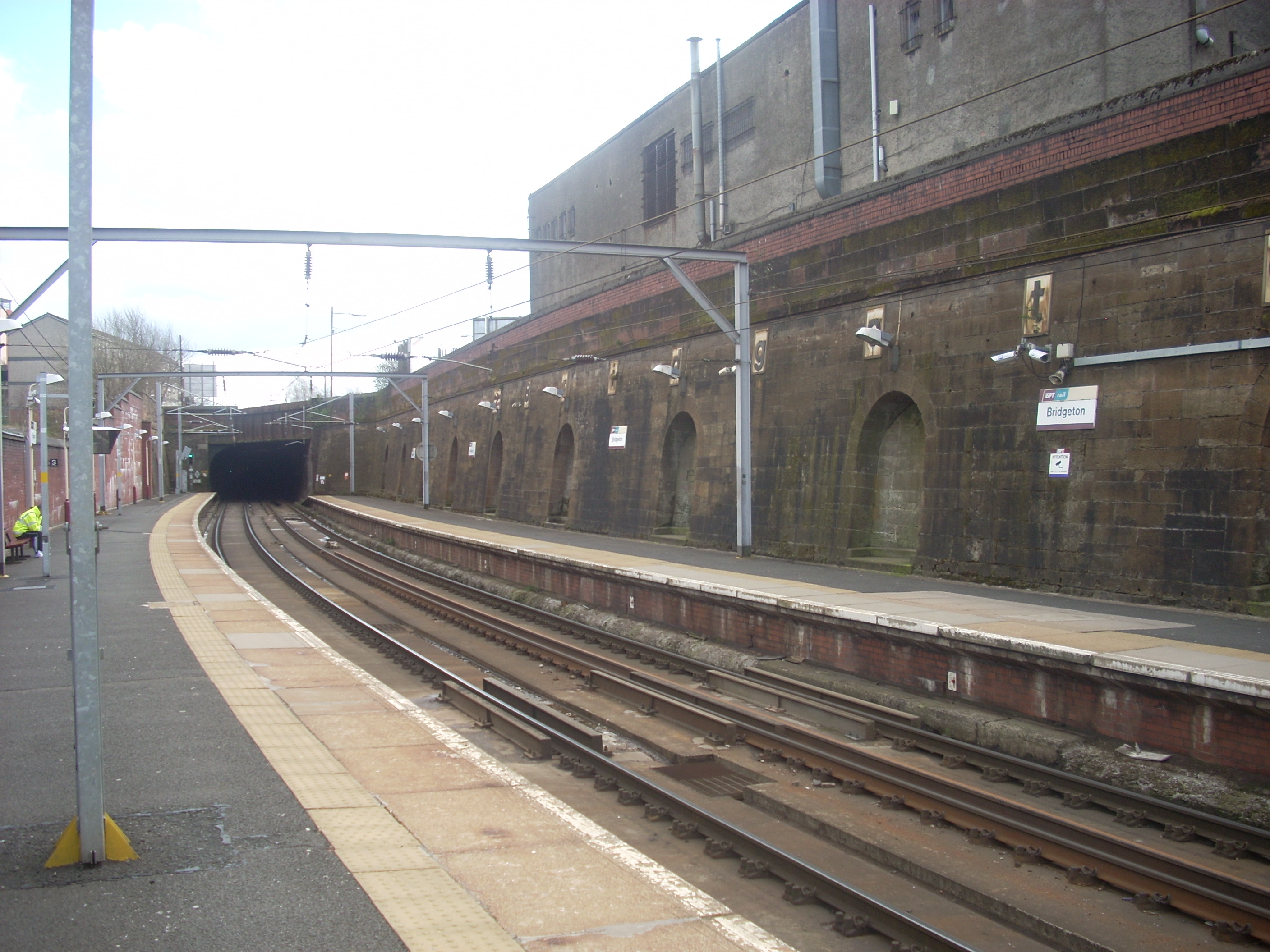 Bridgeton station, Glasgow